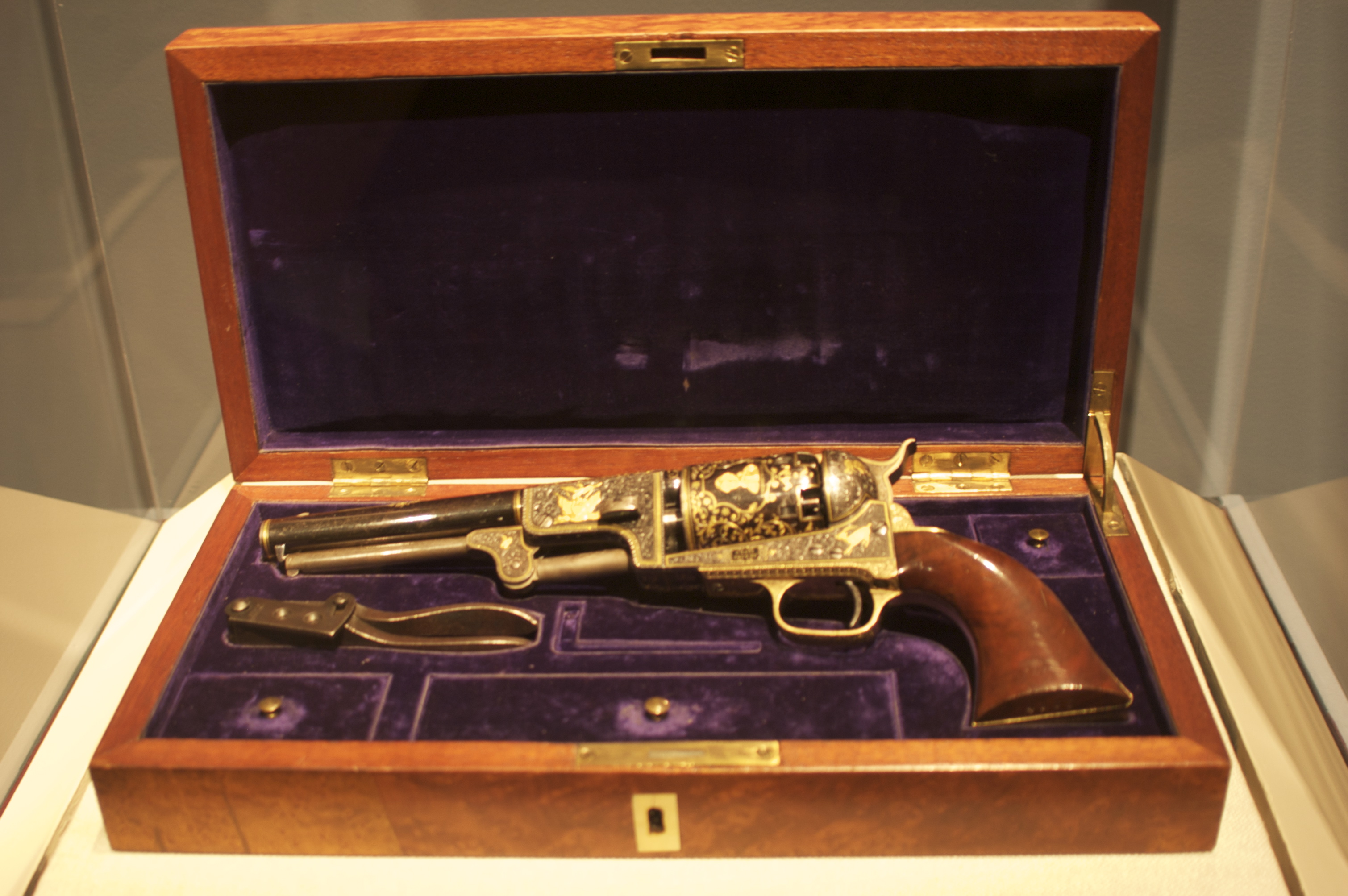 Colt Third Model Dragoon Percussion Revolverca. 1853Made by Samuel Colt (1814–1862, inventor and manufacturer); Decorated by Gustave Young (1827–1895, engraver) Wikipedia Loves Art at the Metropolitan Museum of Art This photo of item # 1995.336 at the Metropolitan Museum of Art was contributed under the team name "dmadeo" as part of the Wikipedia Loves Art project in February 2009. Metropolitan Museum of Art The original photograph on Flickr was taken by dmadeo—please add a comment to the original Flickr page whenever a use has been made on Wikipedia or another project. Project galleries on Flickr: this institution, this team